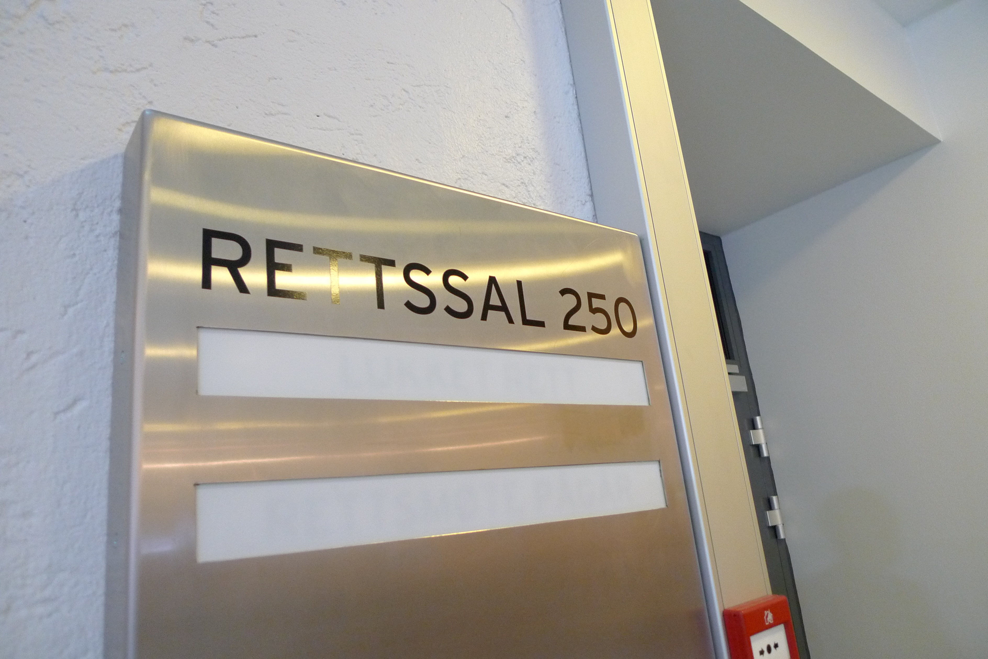 Number plate, court room 250 in Oslo District Court.